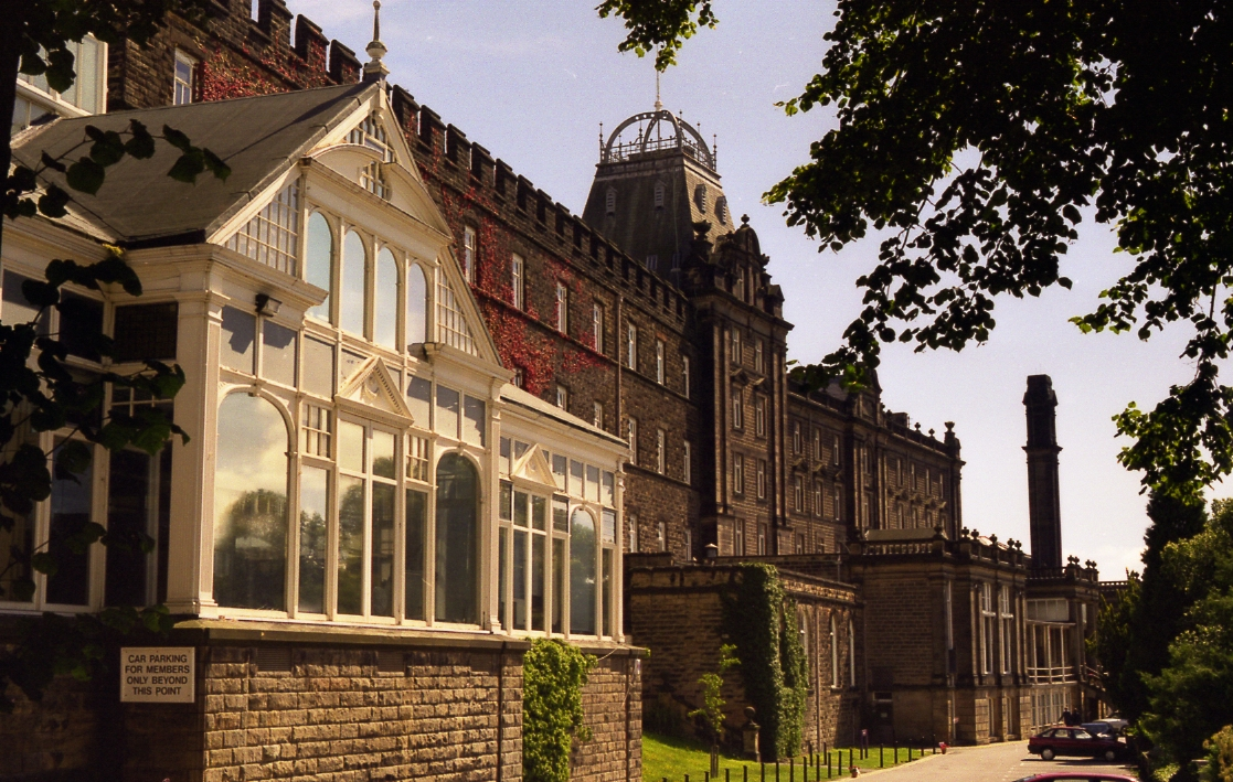 Matlock County Hall (County Offices, formerly Smedley’s Hydro) frontage. The pale building in the foreground is the Winter Gardens (once a ballroom).